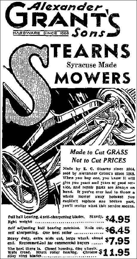 Stearns lawn mower - Alexander Grants & Sons - May 1936